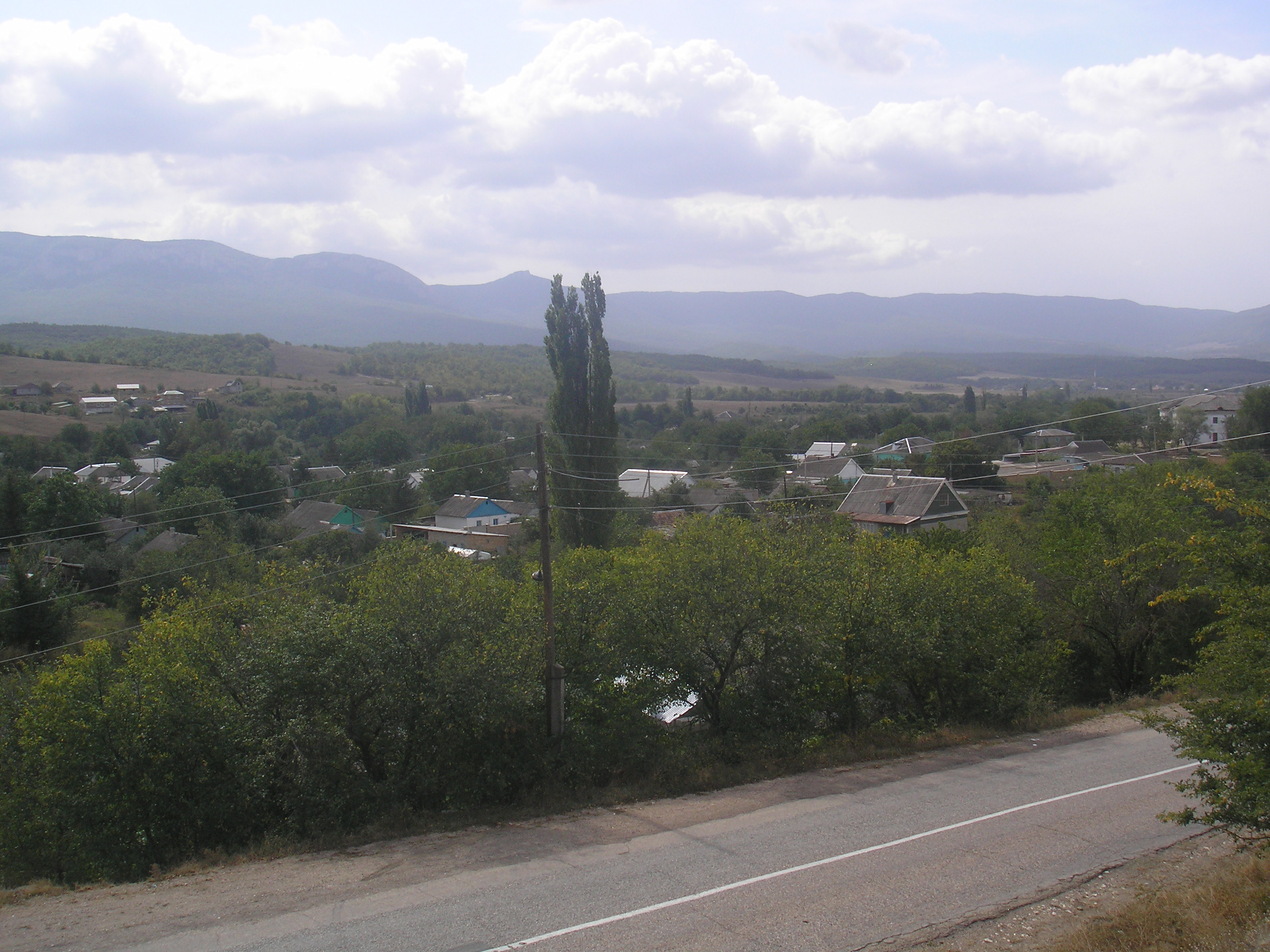 Village Zelenoe, Bakhchisaray Raion from N.